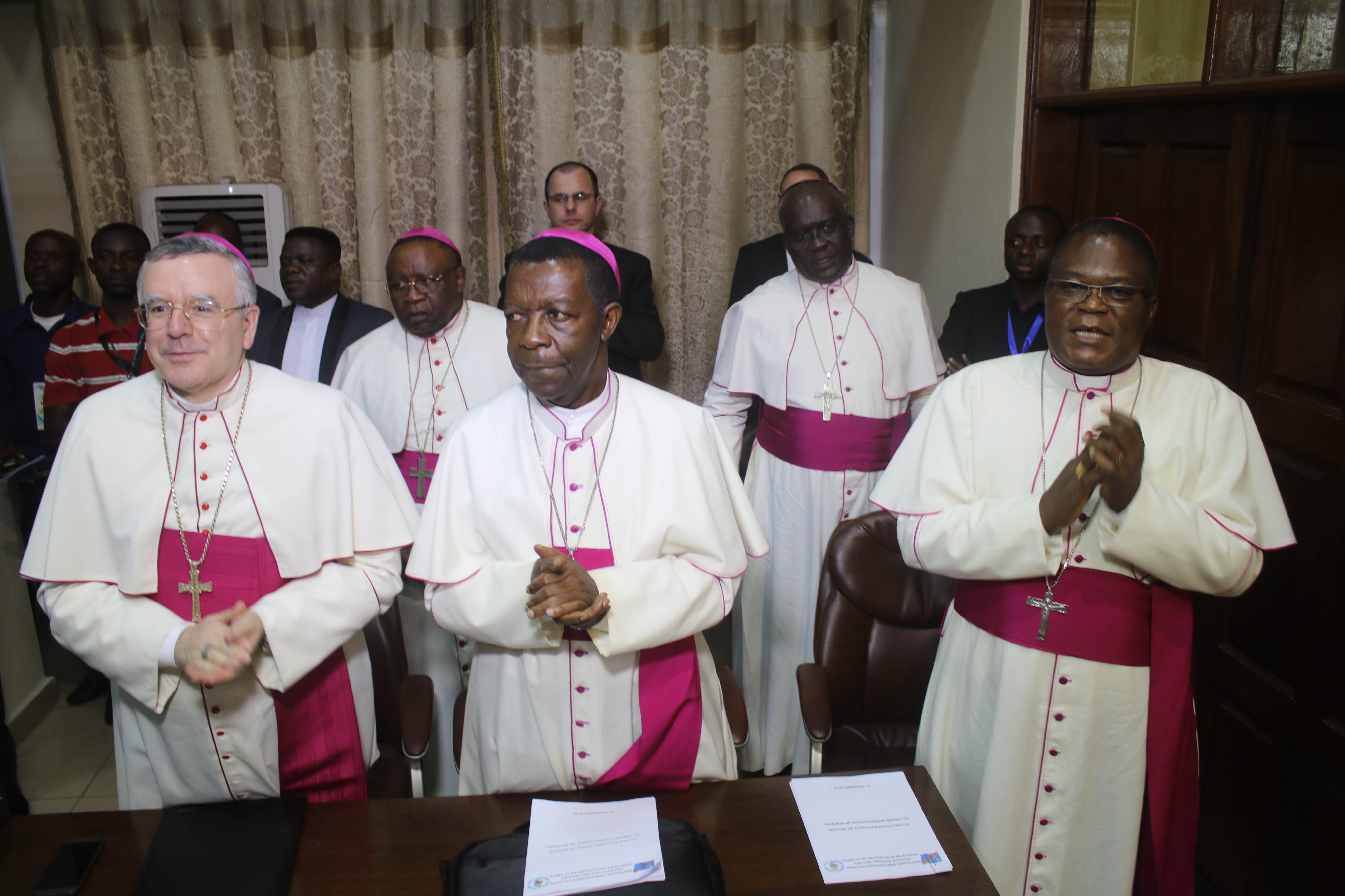 Centre interdiocésain de Kinshasa - Signature on 31 December 2016 of a political agreement by signatories of the 18 October Political Agreement and the Rassemblement-led opposition. Photo MONUSCO/ John Bompengo